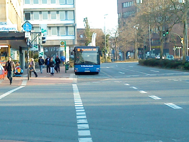 Line 83 by Verkehrsgesellschaft Breitenbach